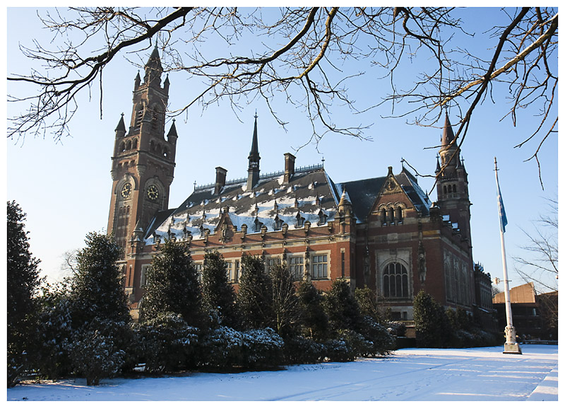 Peace Palace covered by the first flake of snow of 2009